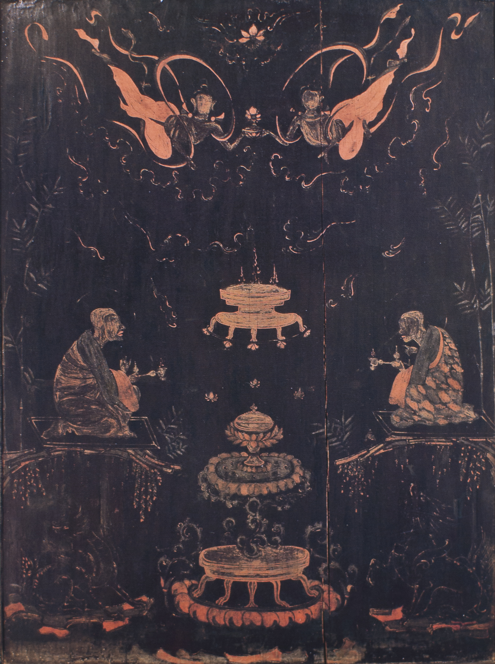 Tamamushi Shrine, Horyuji, Japan